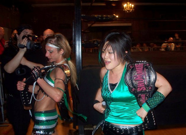 Daizee Haze and Tomoko Nagakawa after winning the Shimmer Tag Team Championship belts